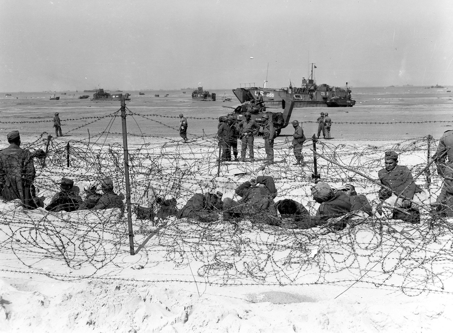 "German prisoners of war in a barbed-wire enclosure on Utah Beach, 6 June 1944. Note the group of African-American Soldiers in the near center distance, Sherman tank (with name 'Delphia' on its side) beyond them, and USS LCT-855 stranded on the beach behind the tank."